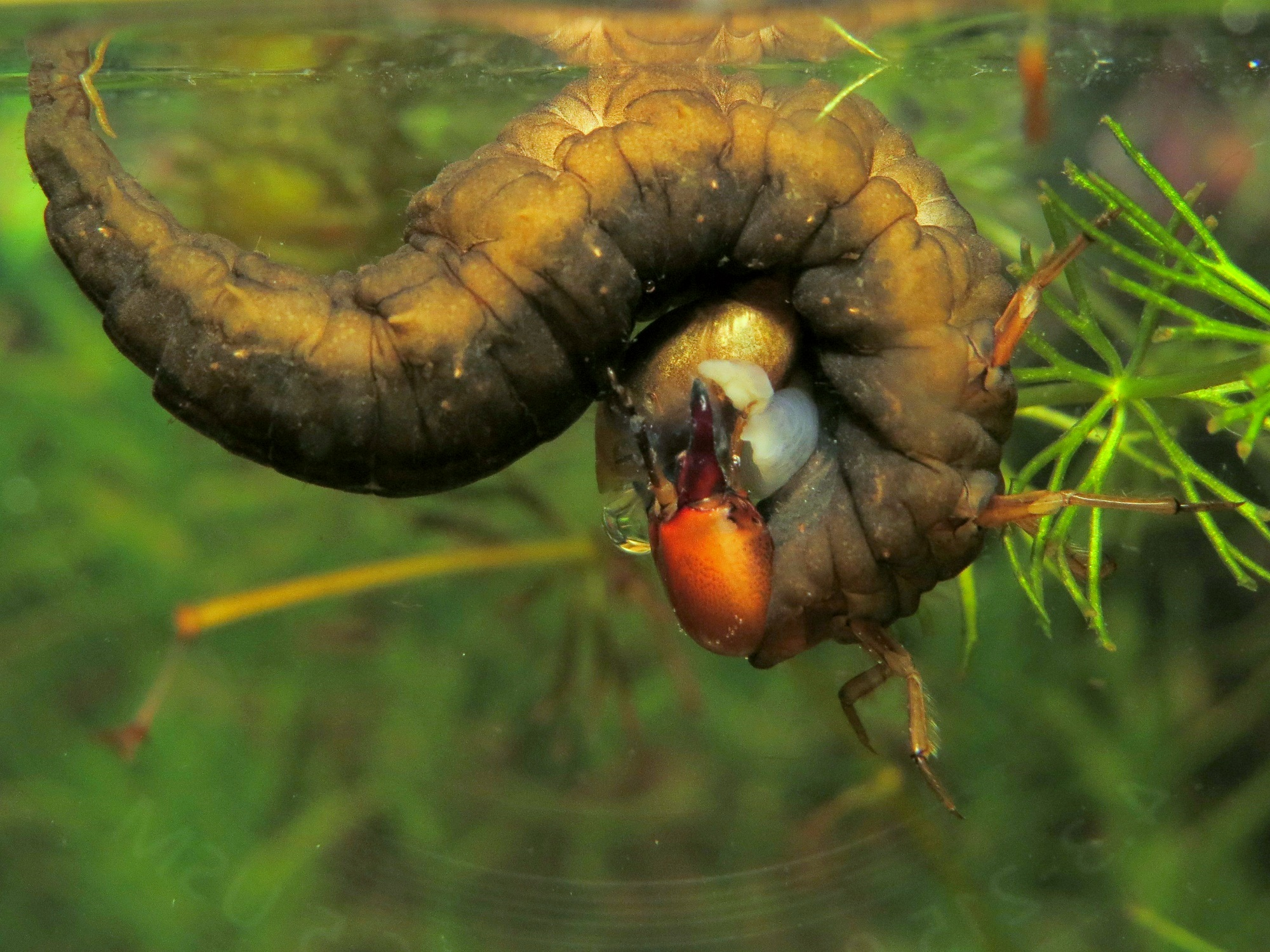 Larva Hydrophilus sp. - A formidable predator. She caught and eats gastropod, revealing their mandibles of his shell like a can opener and eating away the contents.